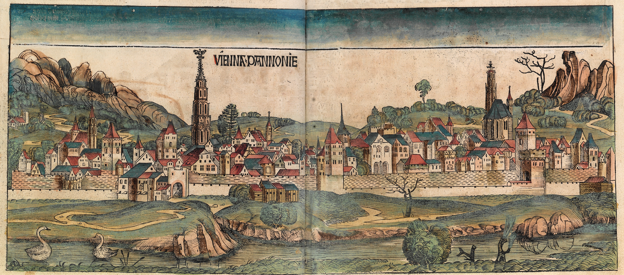 Woodcut of Vienna from the Nuremberg Chronicle